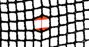 In red is the extra space of the new cavity after septal rupture due to the lung elastic recoil at the expenses of the surrounding healthy meshes (alveoli)